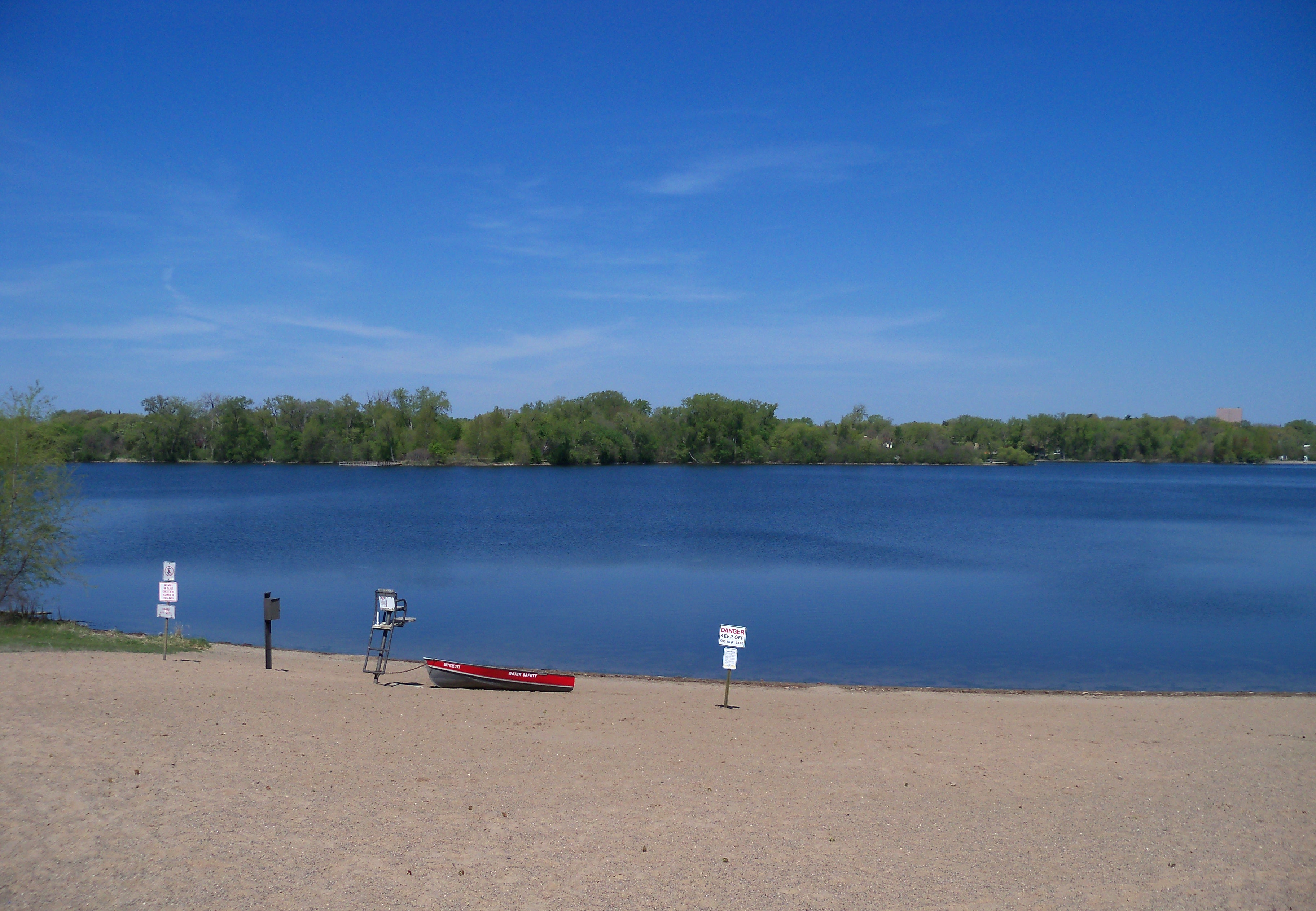 Beach on Cedar Lake in Minneapolis, Minnesota, USA.